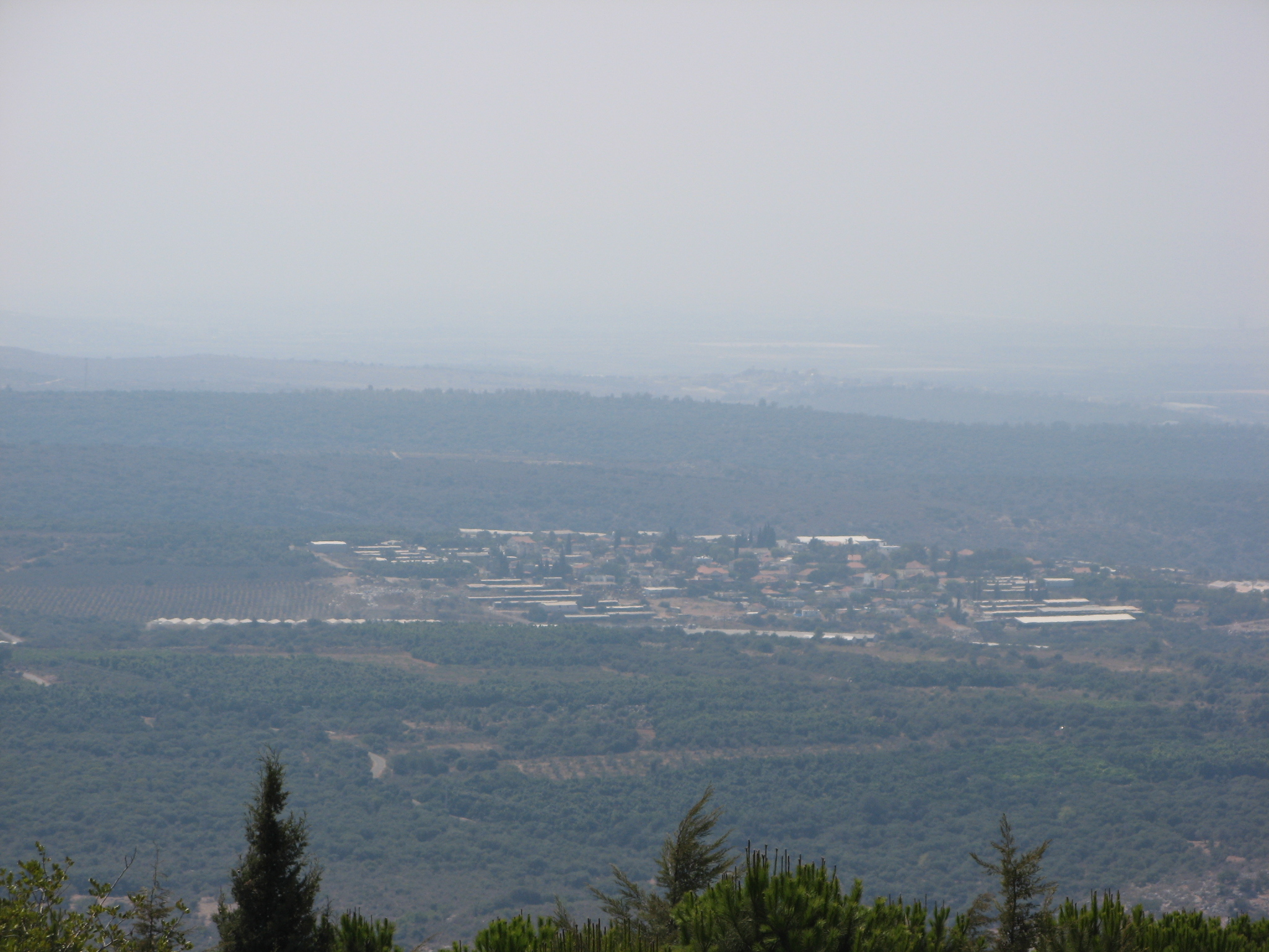 Avdon from Keshet cave